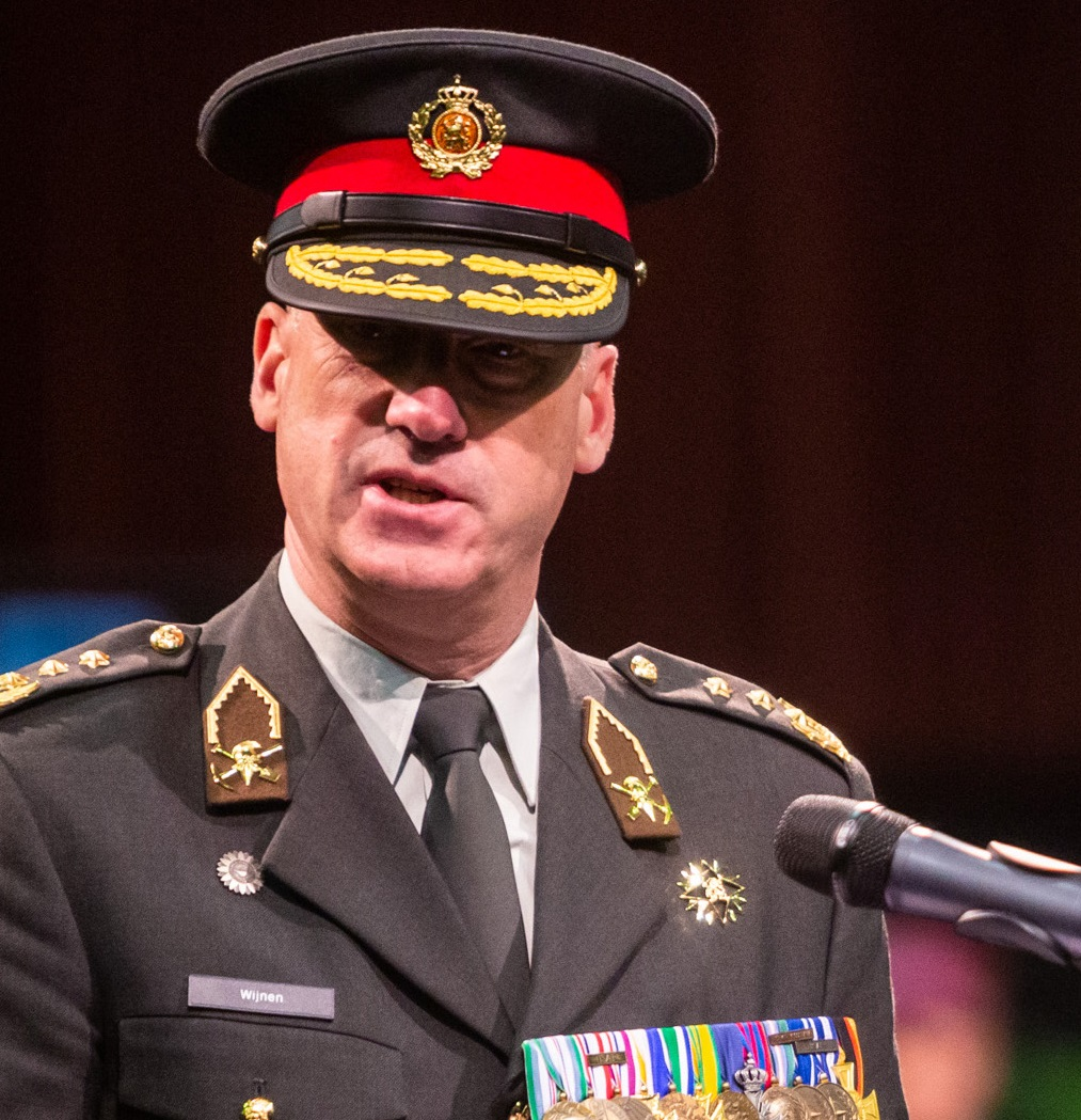 This is a cropped copy of File:Ceremonie Herinneringsmedaille Internationale Missies-3.jpg Lieutenant-general Martin Wijnen. Commander of the Royal Netherlands Army (28 August 2019), previously a.o. Deputy Commander of the Royal Netherlands Armed Forces.